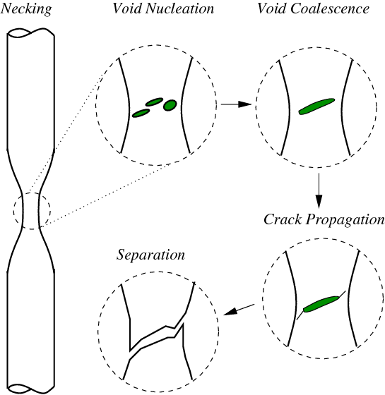 A schematic of ductile fracture of cylindrical rod.